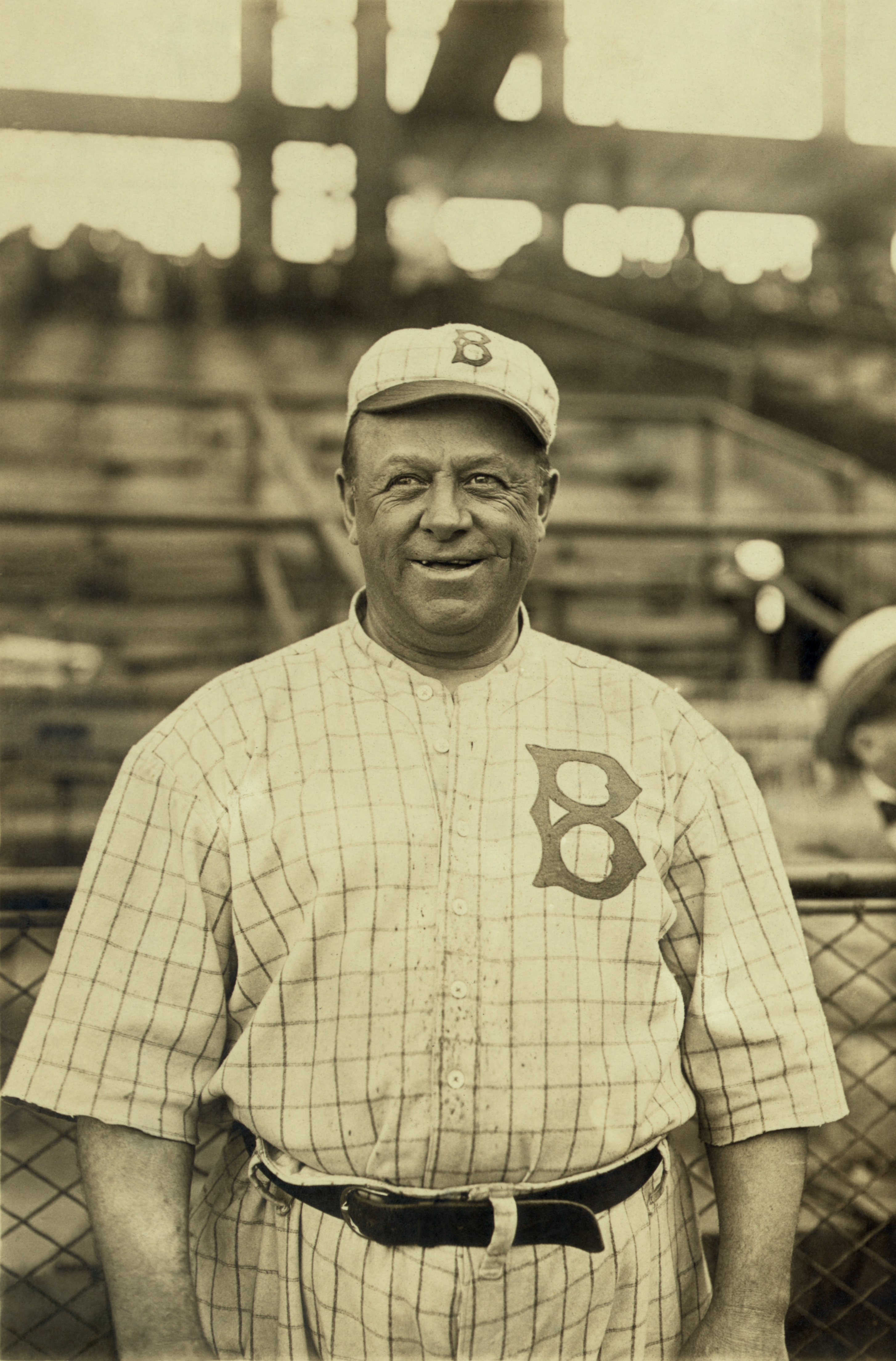 Photograph showing Wilbert Robinson, manager of the Brooklyn Robins, in uniform.